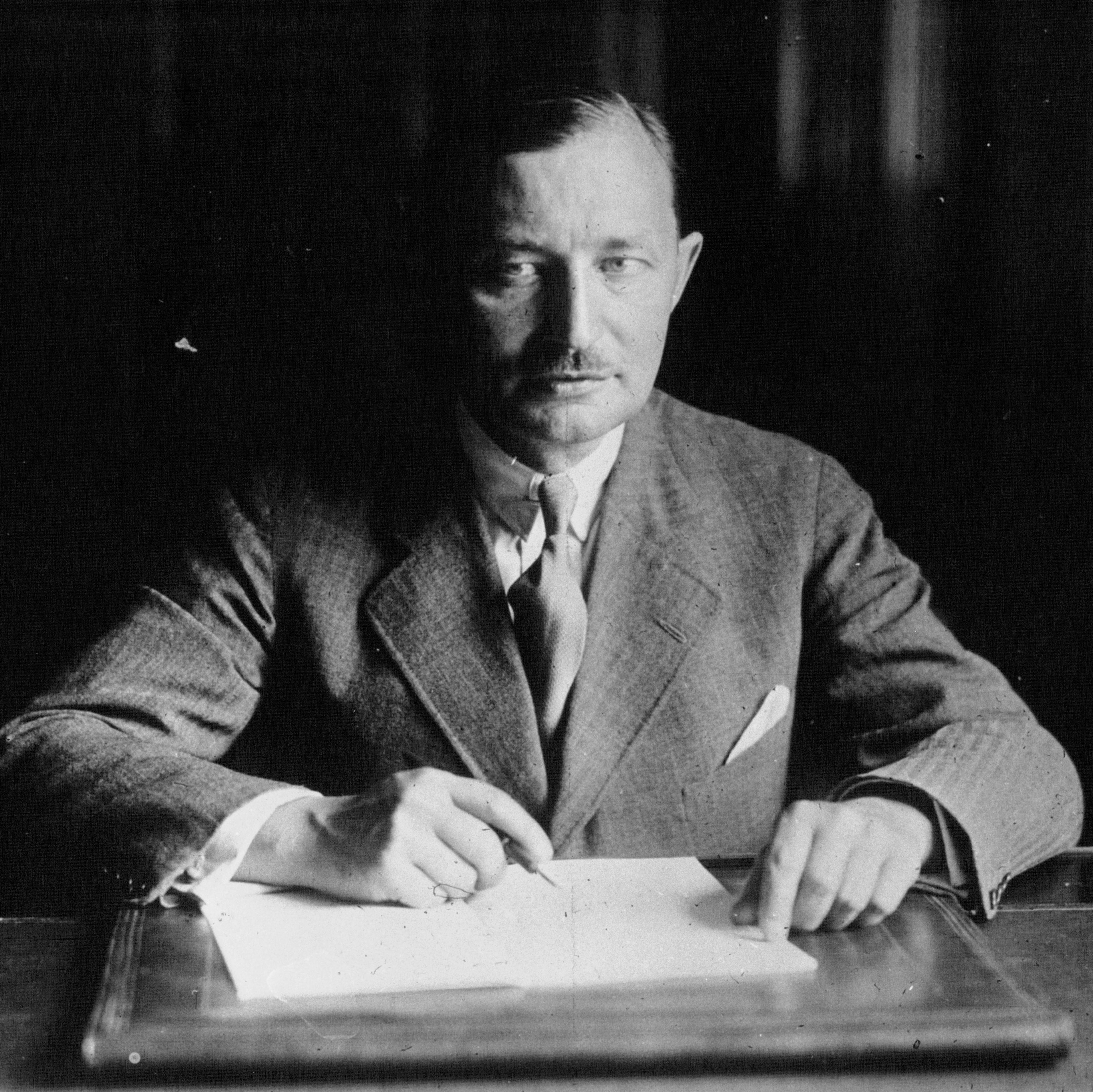 Czech politician Zdeněk Fierlinger (1891-1976) as ambassador to Austria in 1932.